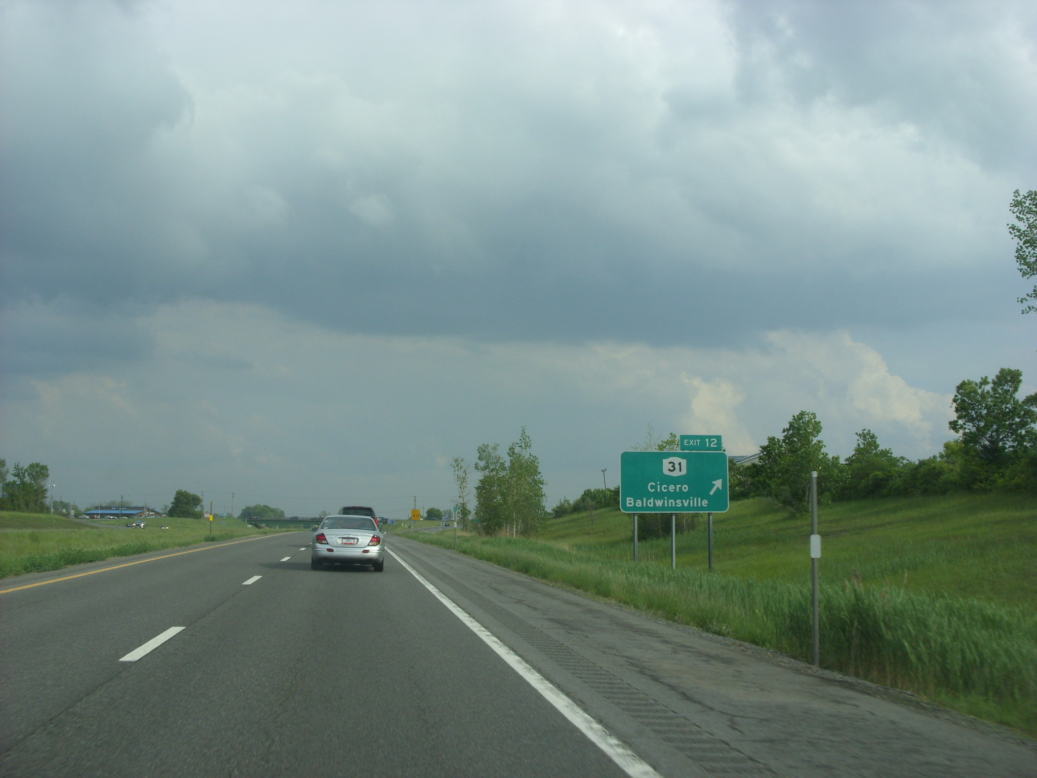 New York State Route 481 at exit 12 in Clay, New York.